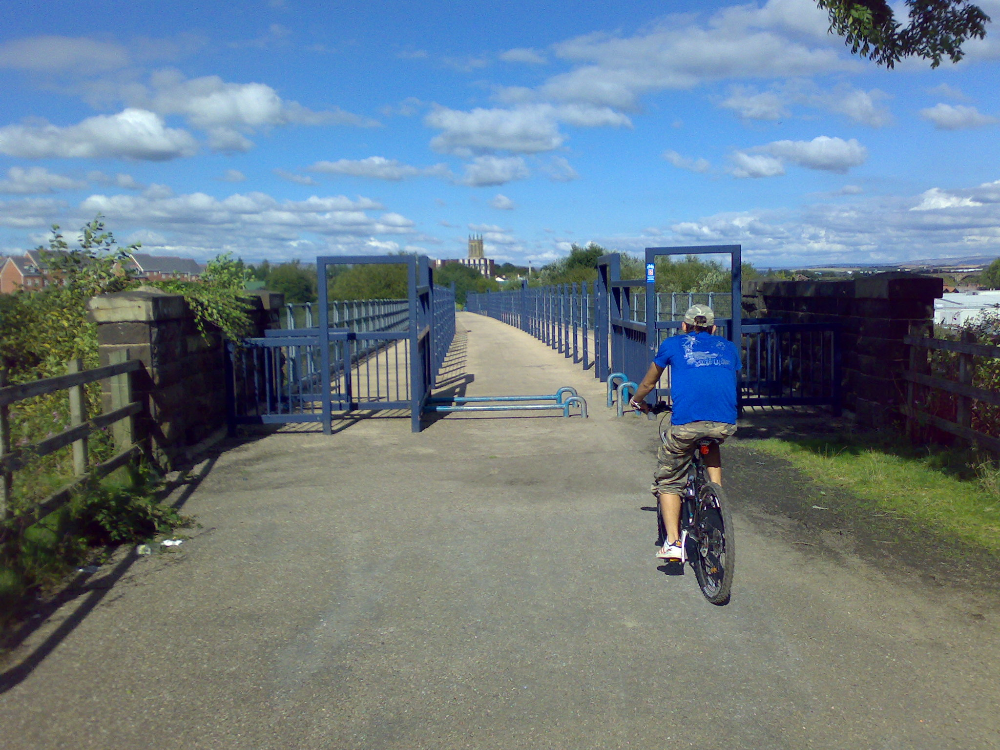 Outwood Viaduct looking north towards Radcliffe